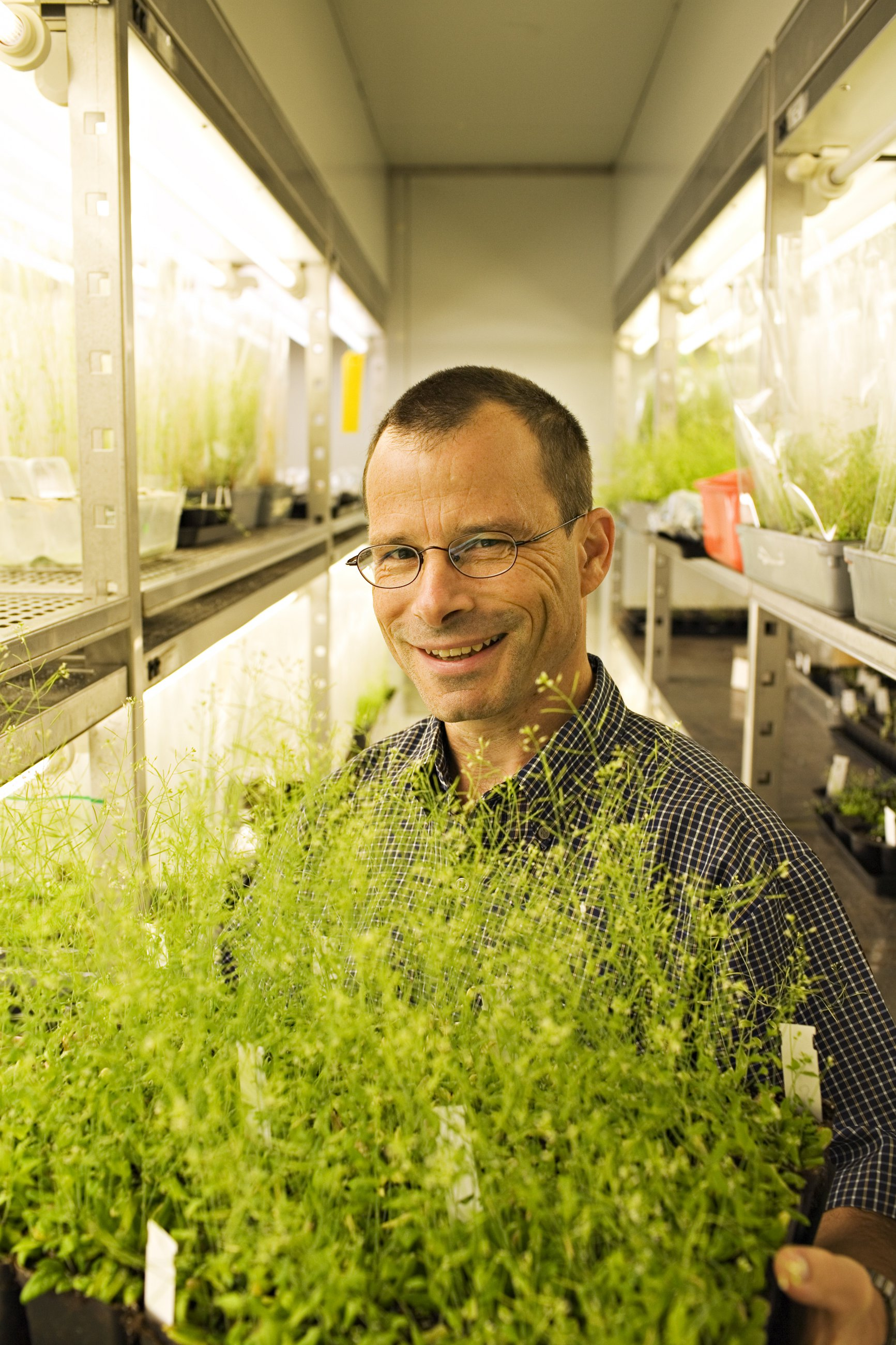 Dutch biologist and molecular geneticist Ben Scheres (2006)